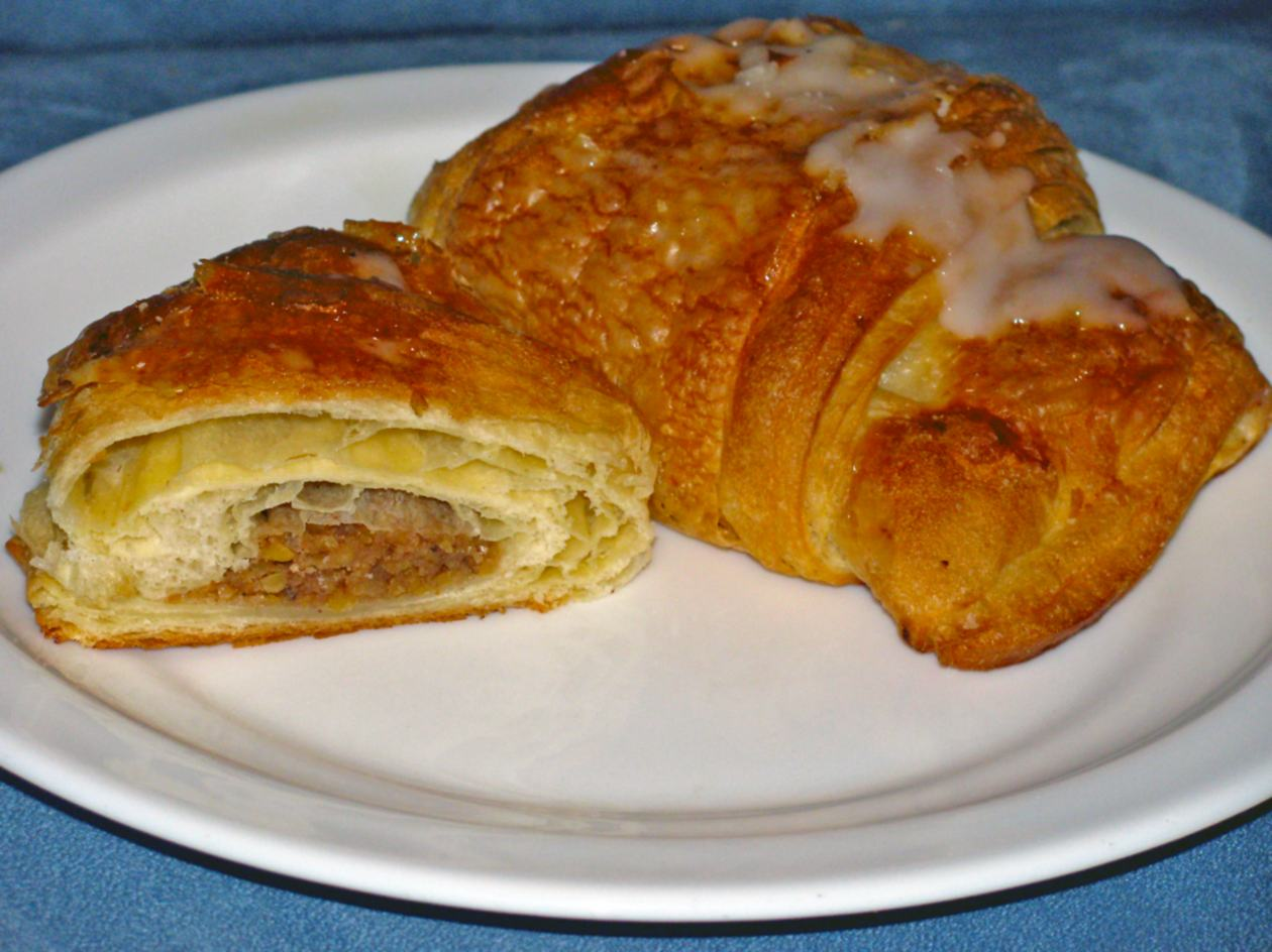 "Kissinger Hoernchen" pastry from the region of Bad Kissingen (Germany)